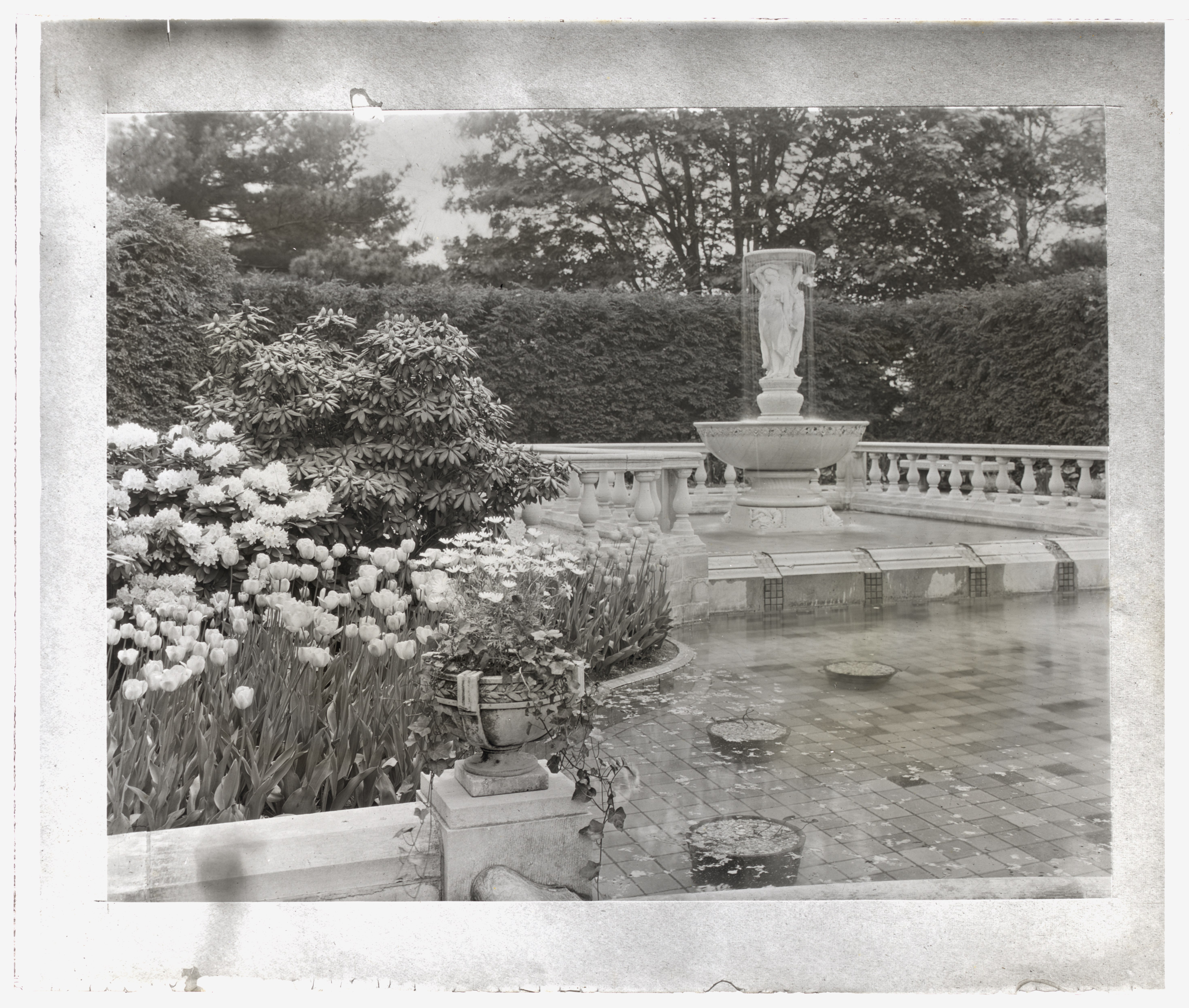 Title: "Ormston," John Edward Aldred house, East Beach Drive, Glen Cove, New York. Fountain Abstract/medium: 1 photograph : glass lantern slide, b&w; 3.25 x 4 in.